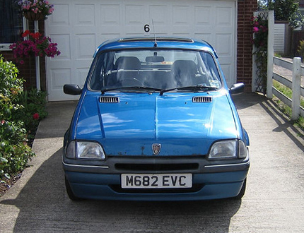 A 1994-95 (M reg) Rover Metro Rio (called the Rover 100 series outside UK)